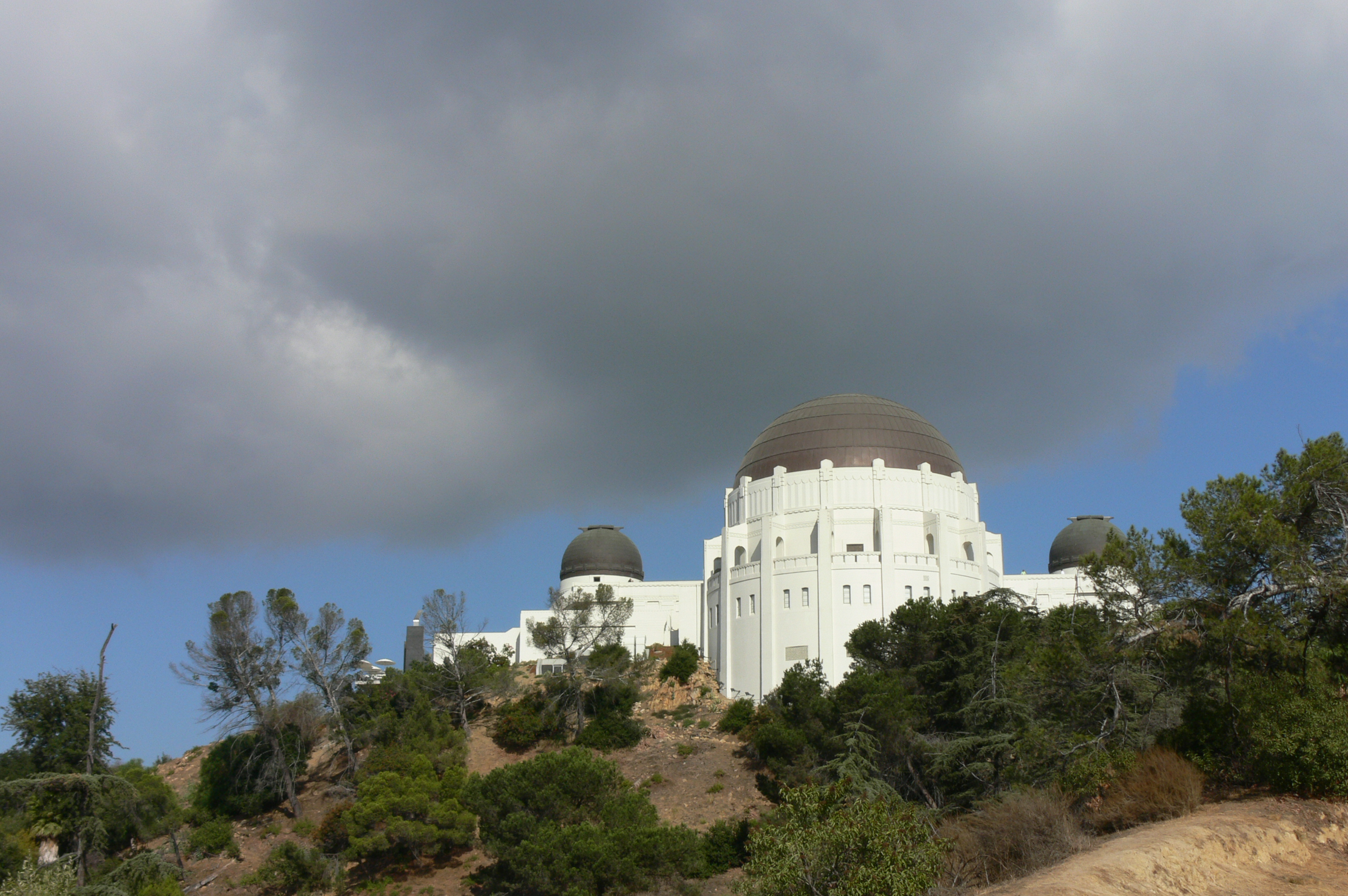 A view of the south elevation of the Griffith Observatory, taken from the Fern Dell trail. Photograph by Mike Dillon, November 26, 2006.